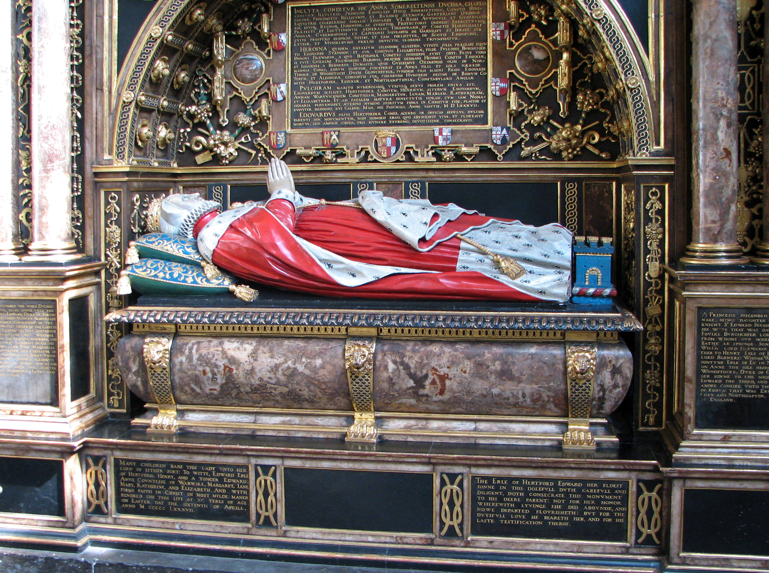 Tomb of Anne Seymour, Duchess of Somerset (c.1510-1587) in Westminster Abbey, London, England